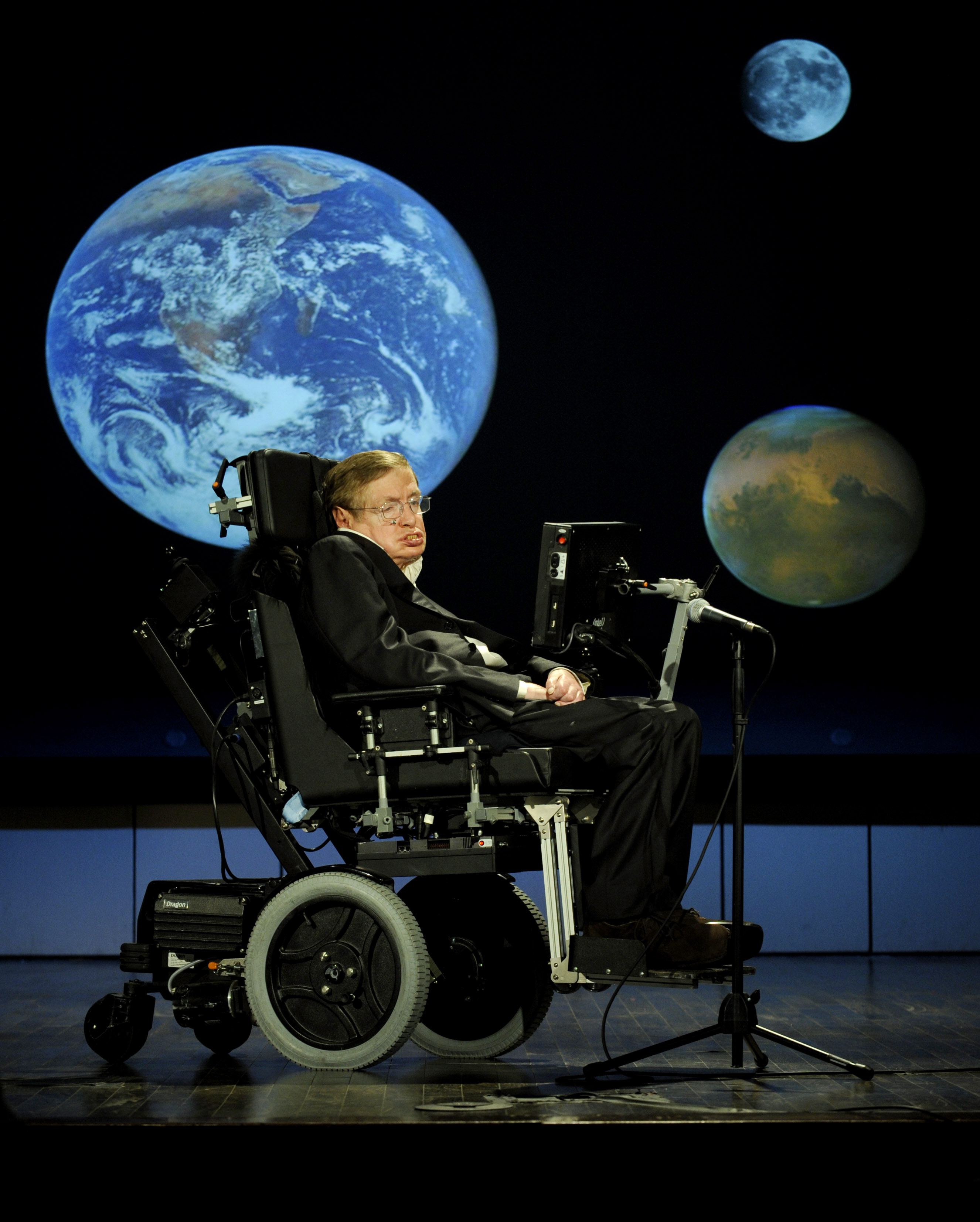 Dr. Stephen Hawking, a professor of mathematics at the University of Cambridge, delivers a speech entitled "Why we should go into space" during a lecture that is part of a series honoring NASA's 50th Anniversary, Monday, April 21, 2008, at George Washington University's Morton Auditorium in Washington